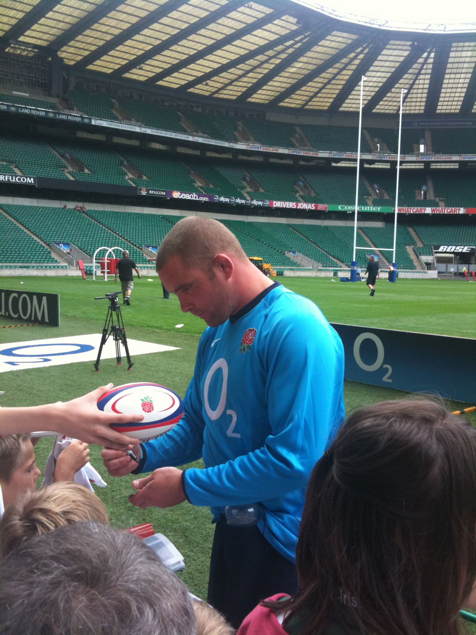 Phil Vickery à l'entraînement avec le XV de la Rose. Prise le 12 août 2009. Phil Vickery with English team training session in Twickenham stadium. 12 August 2009.